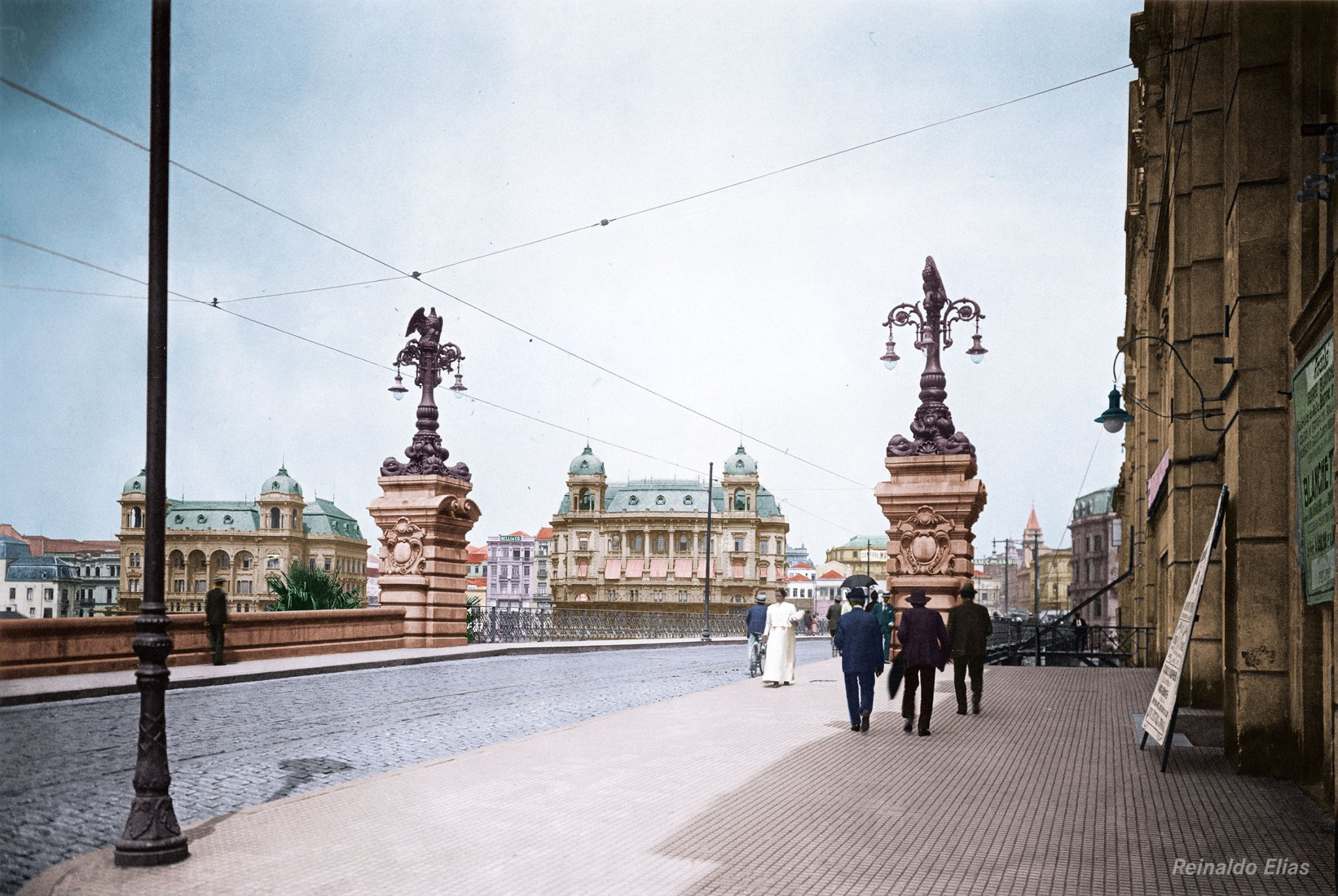 Palacetes Prates vistos do Teatro São José, 1910s